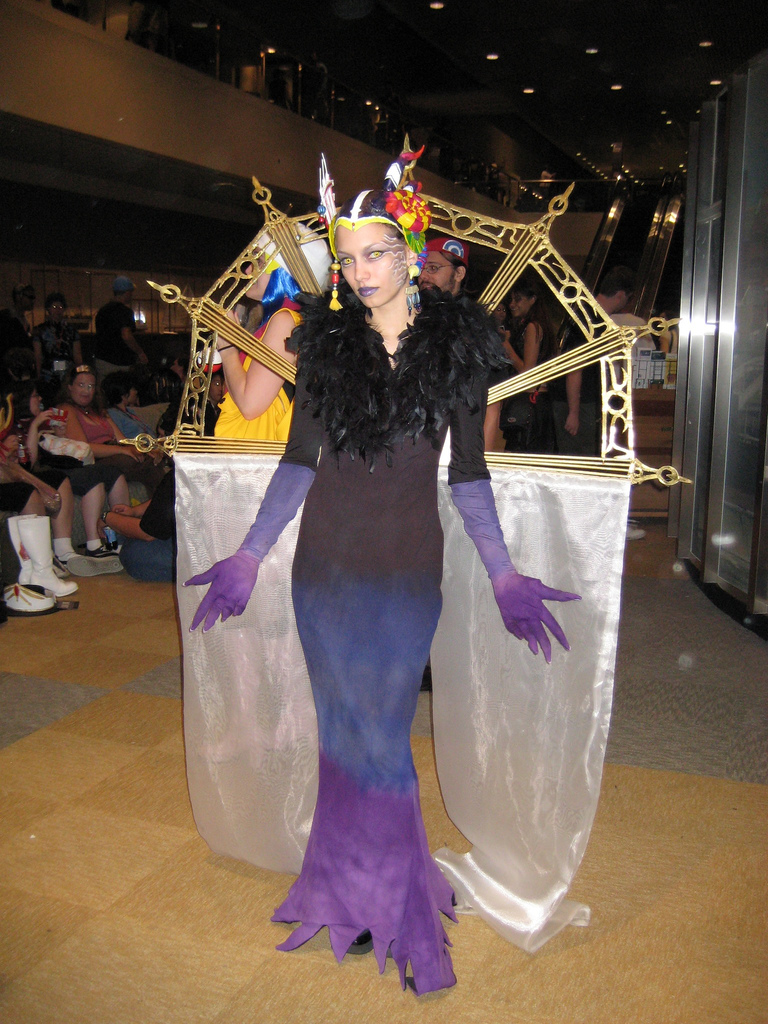 This photo was taken on July 21, 2007 using a Canon PowerShot SD1000.